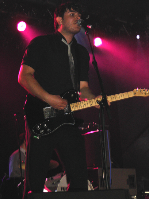 Ross Millard, lead singer of The Futureheads.